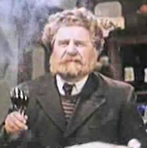 Georgy Budarov as a passenger in The Train Goes East (1947)